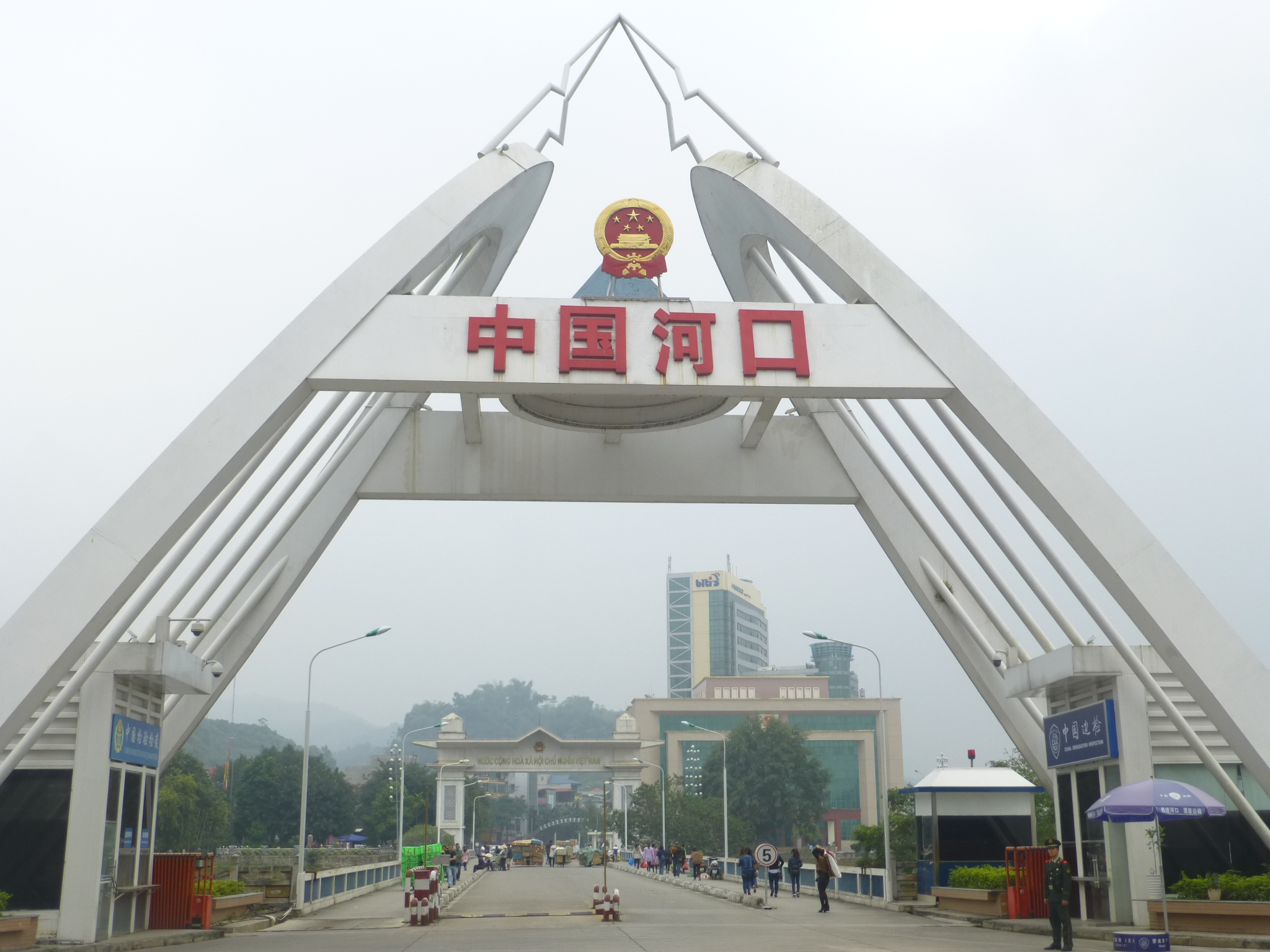 The border crossing from downtown Hekou to Lao Cai